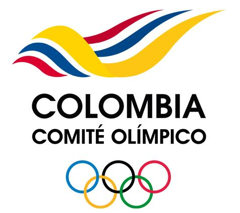 Olimpic Colombian Comitee